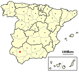 Created by myself, David Paloch User:Caroig, released into Public Domain.